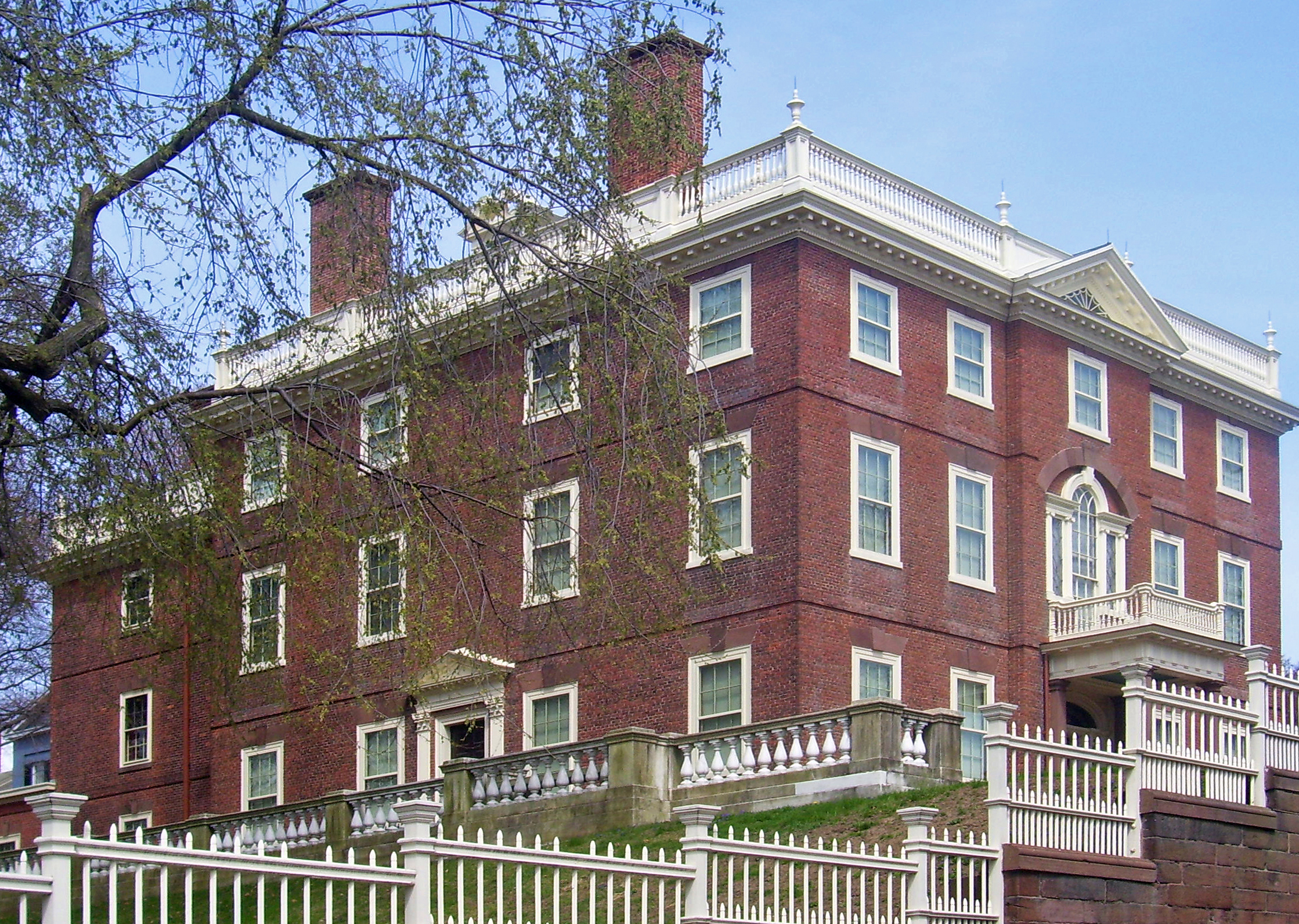 John Brown House in Providence, RI, USA